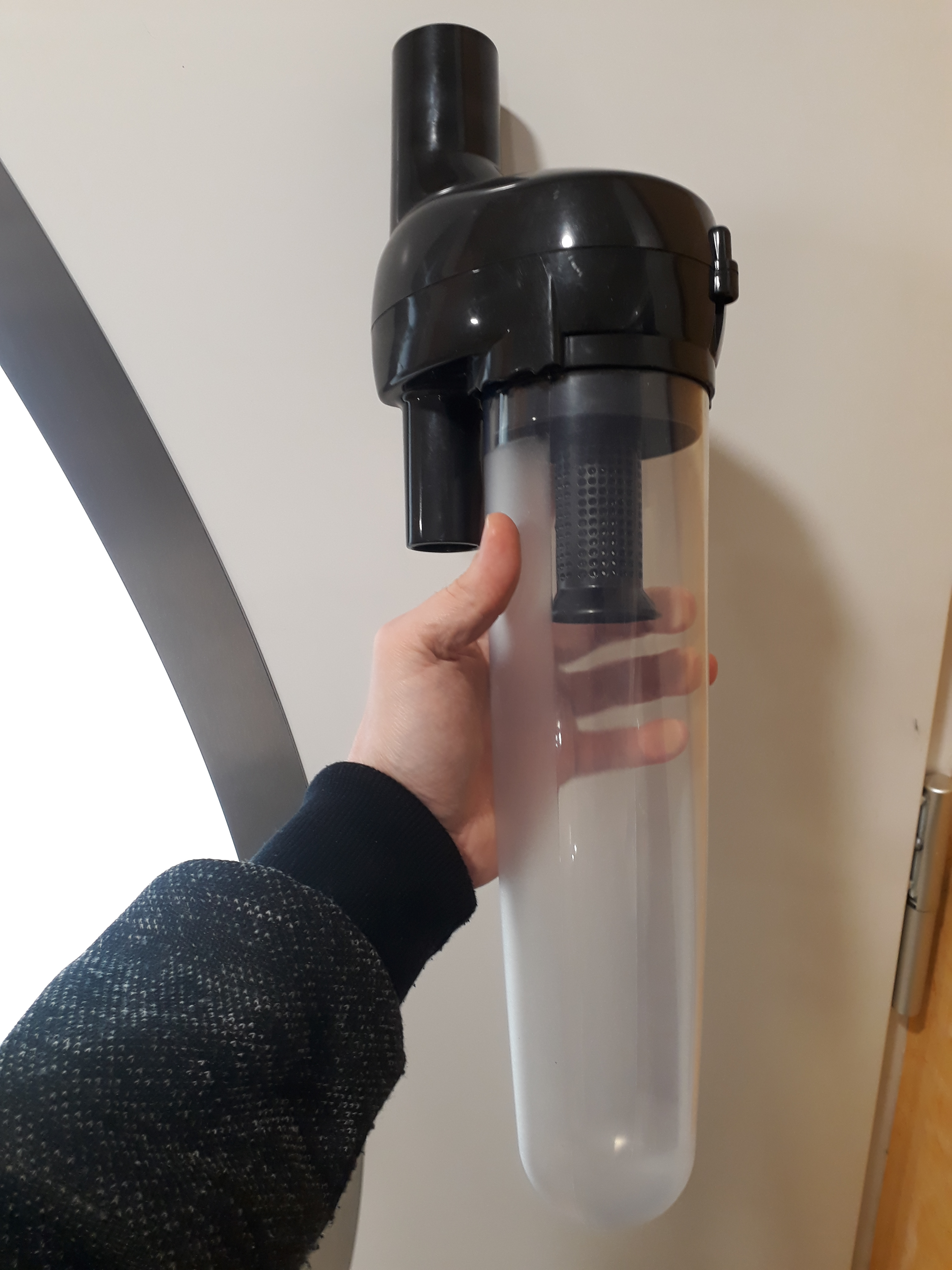 Best central vacuum cleaner